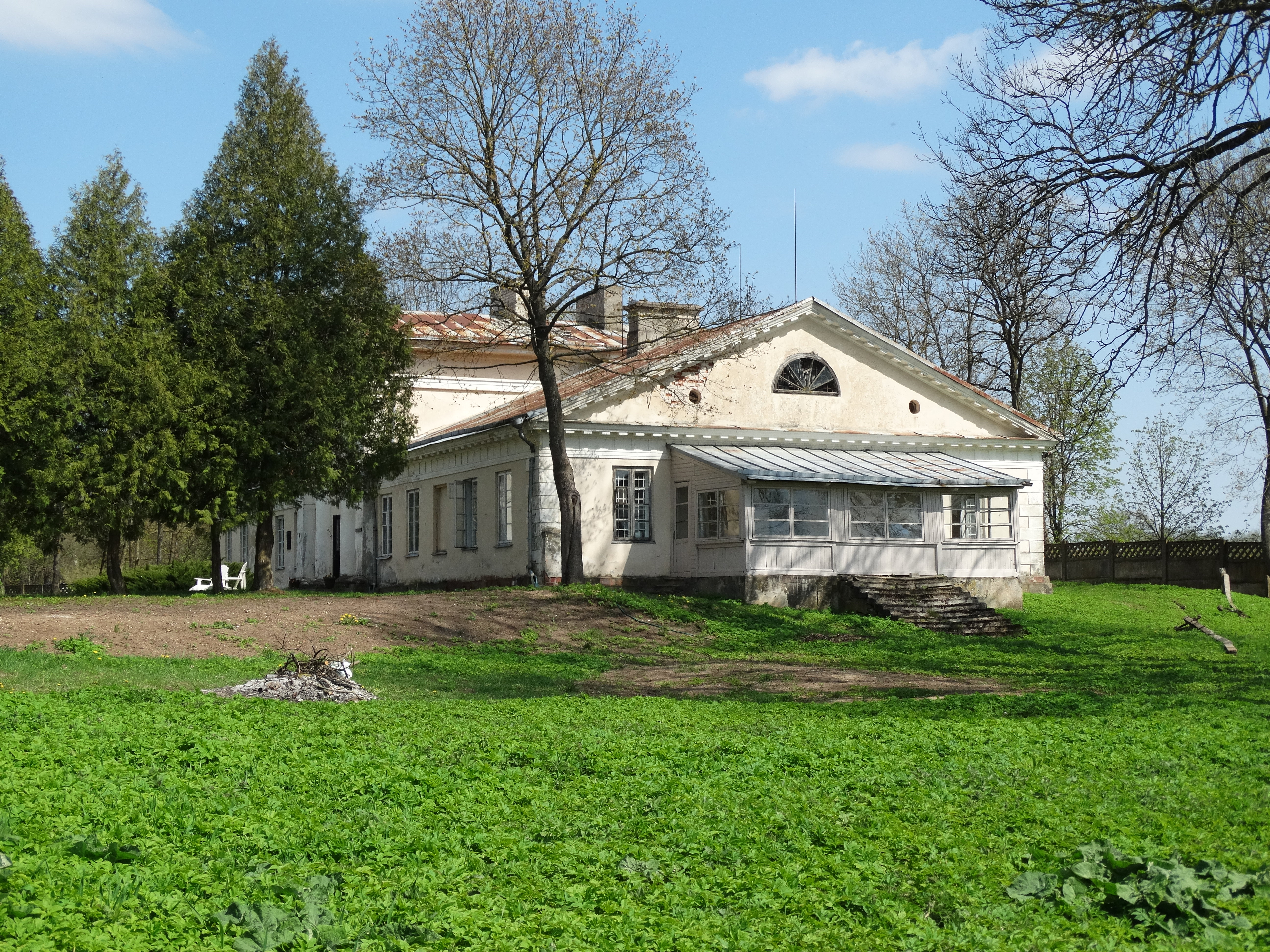 Manor in Čiobiškis, Širvintos District, Lithuania